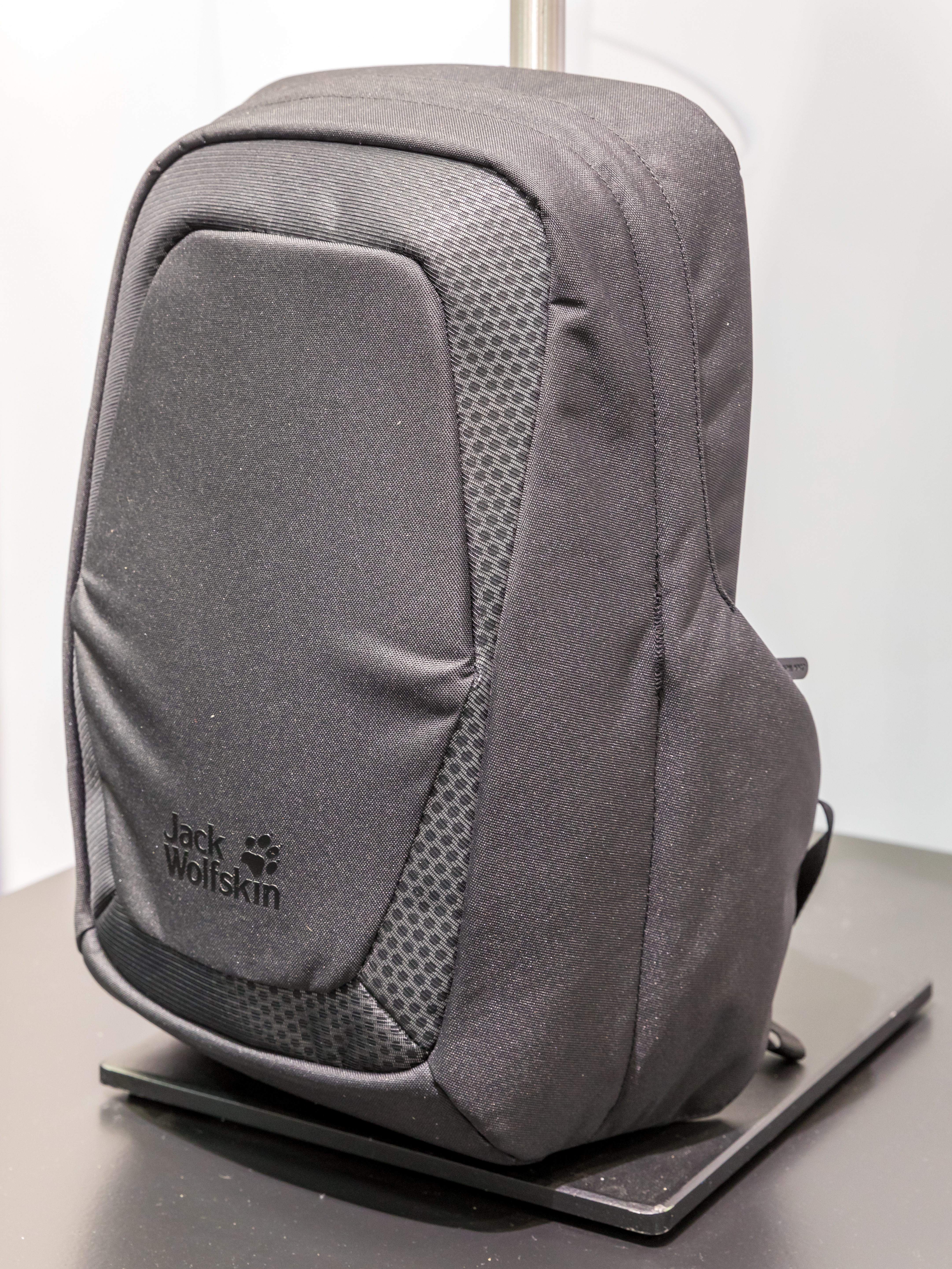 OutDoor 2018